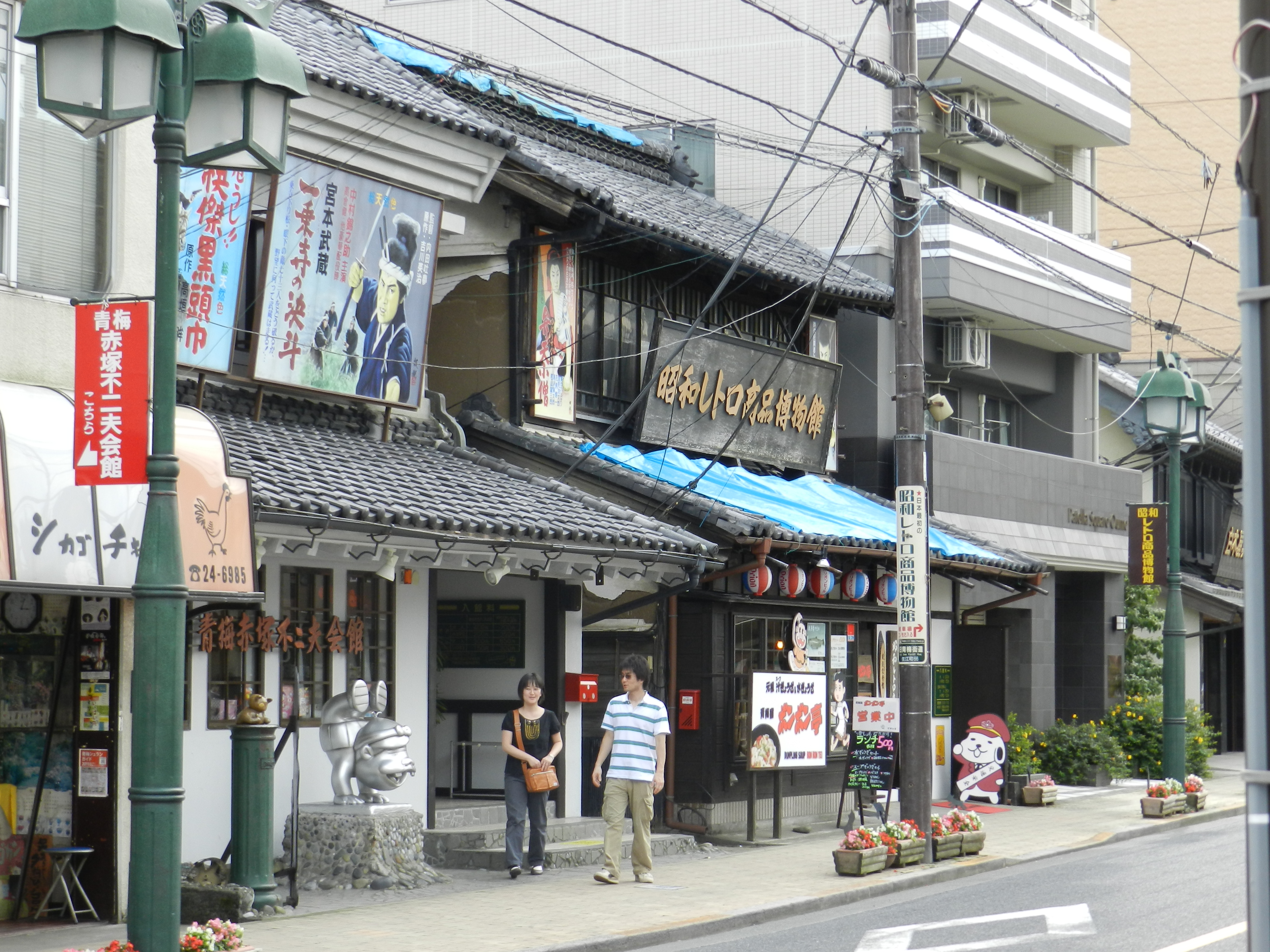 The Fujio Akatsuka Museum at Ōme, Prefecture Tokyo, Japan